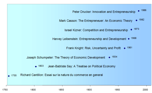 Notable persons and their works in entrepreneurship history. Figure created by Mikko Ohtamaa.